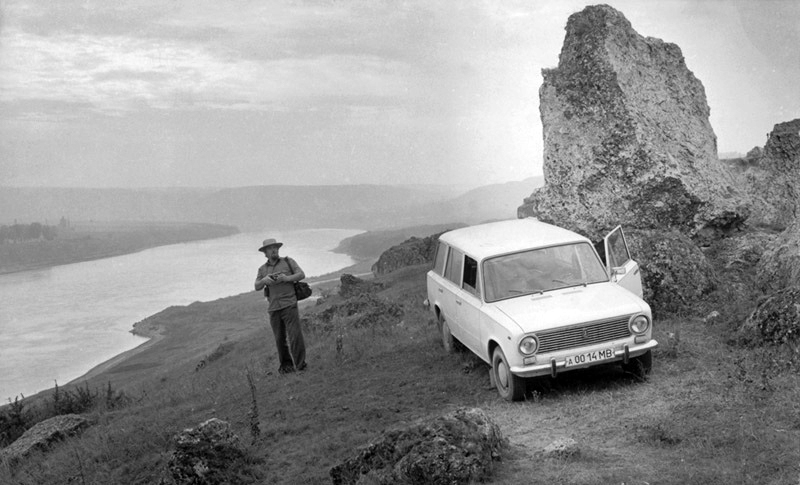 Kamensk area of the Soviet Moldova (80th years).